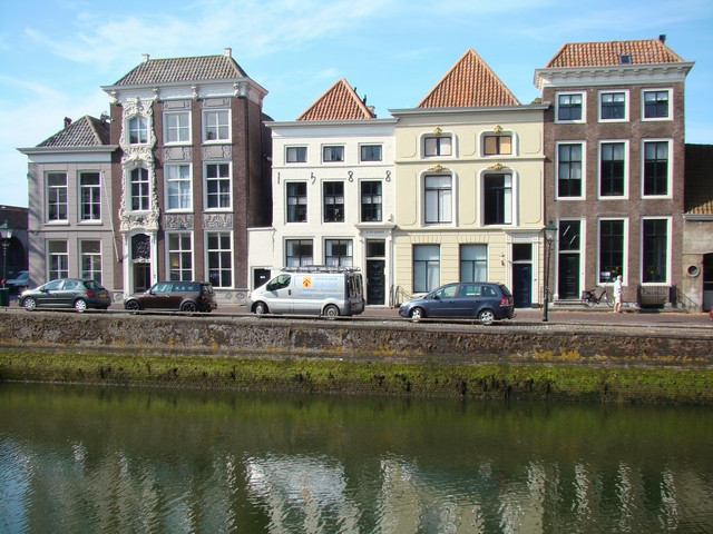 Impressions of Zierikzee Netherlands